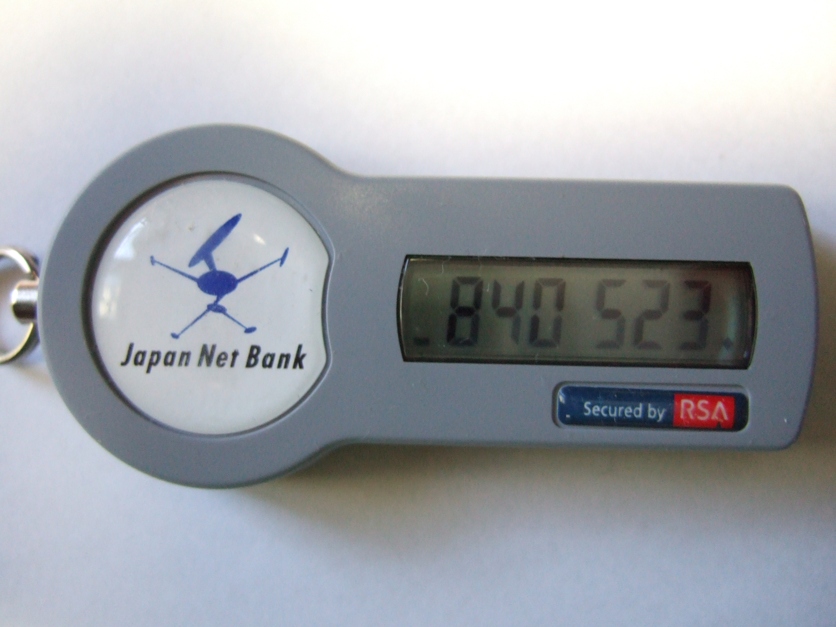 Security token of JNB.